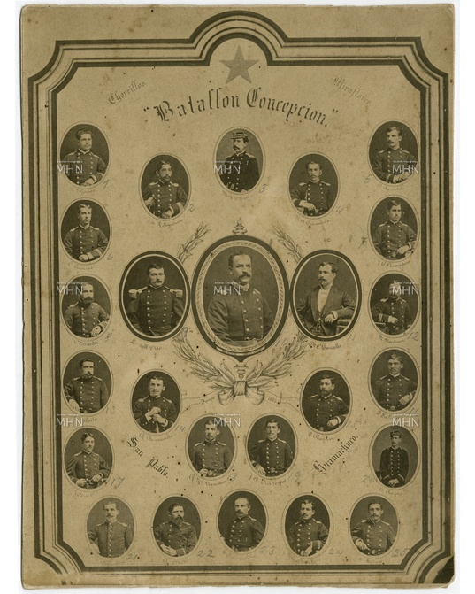 Collage con integrantes del Batallón Concepción